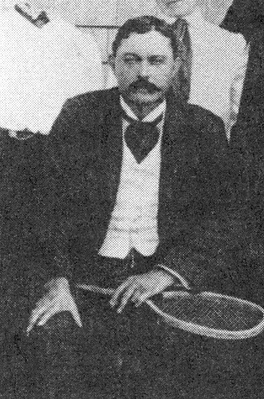 Coleson Hubbard